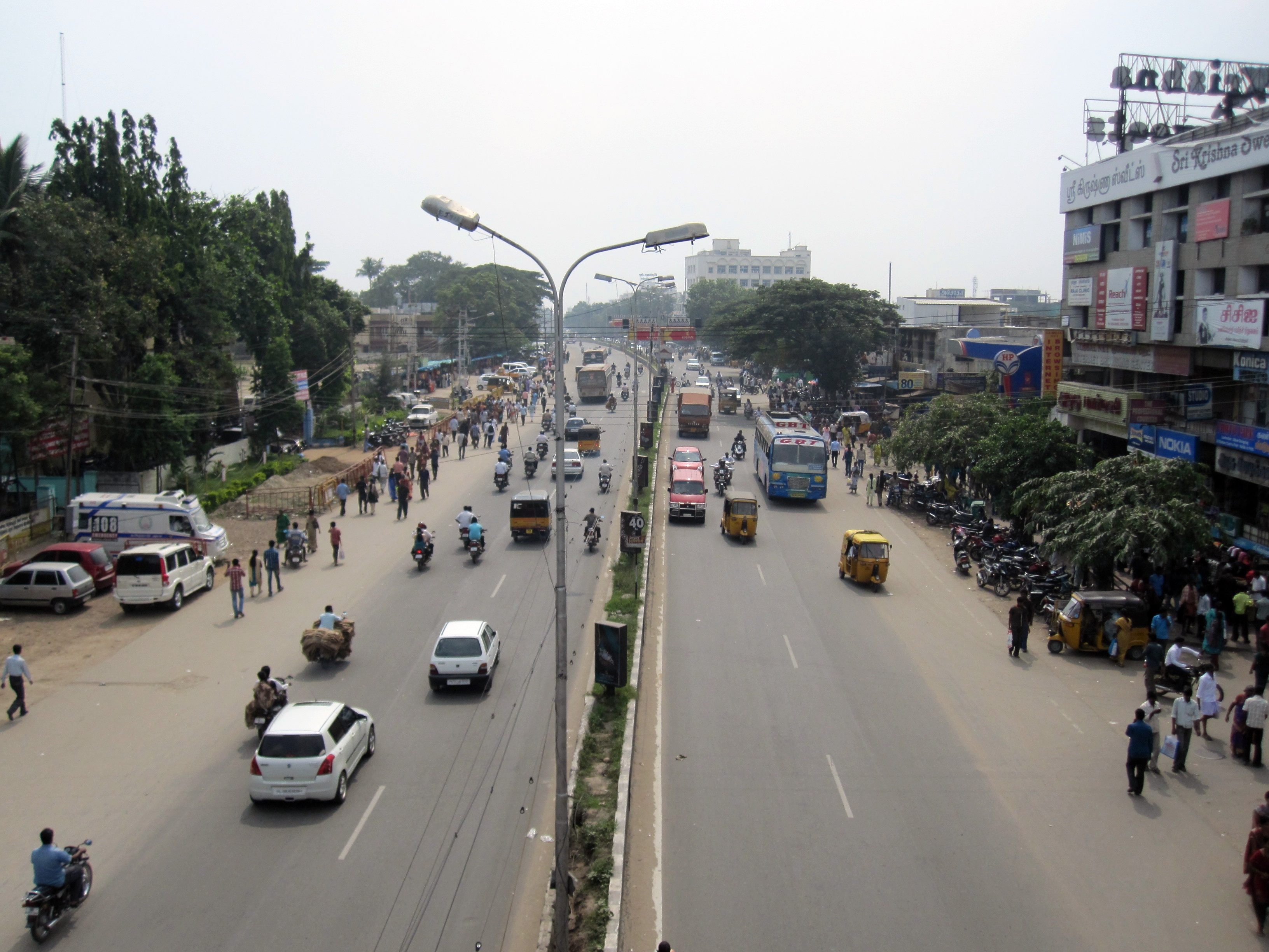 Dr. Nanjappa Road, Gandhipuram, Coimbatore. View from the pedestrian over bridge near town bus stand